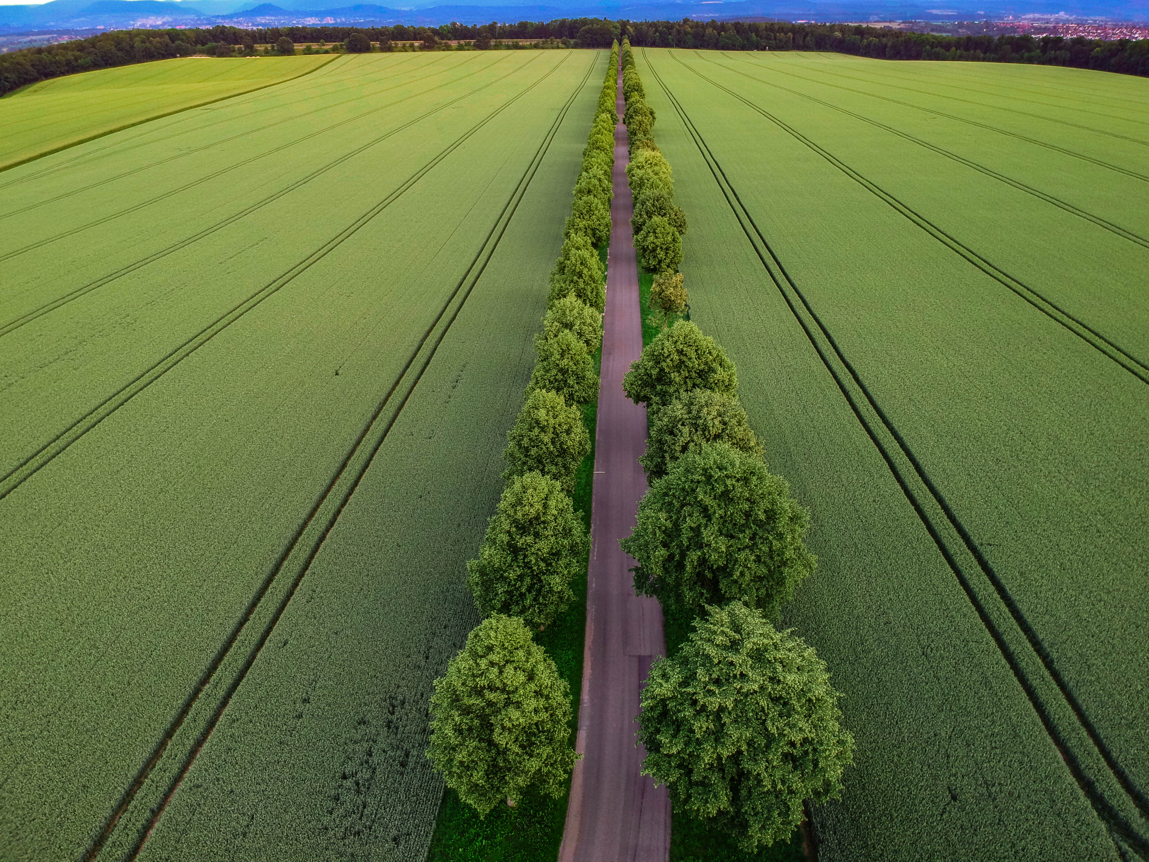 DCIM/100MEDIA/DJI_1563.JPG